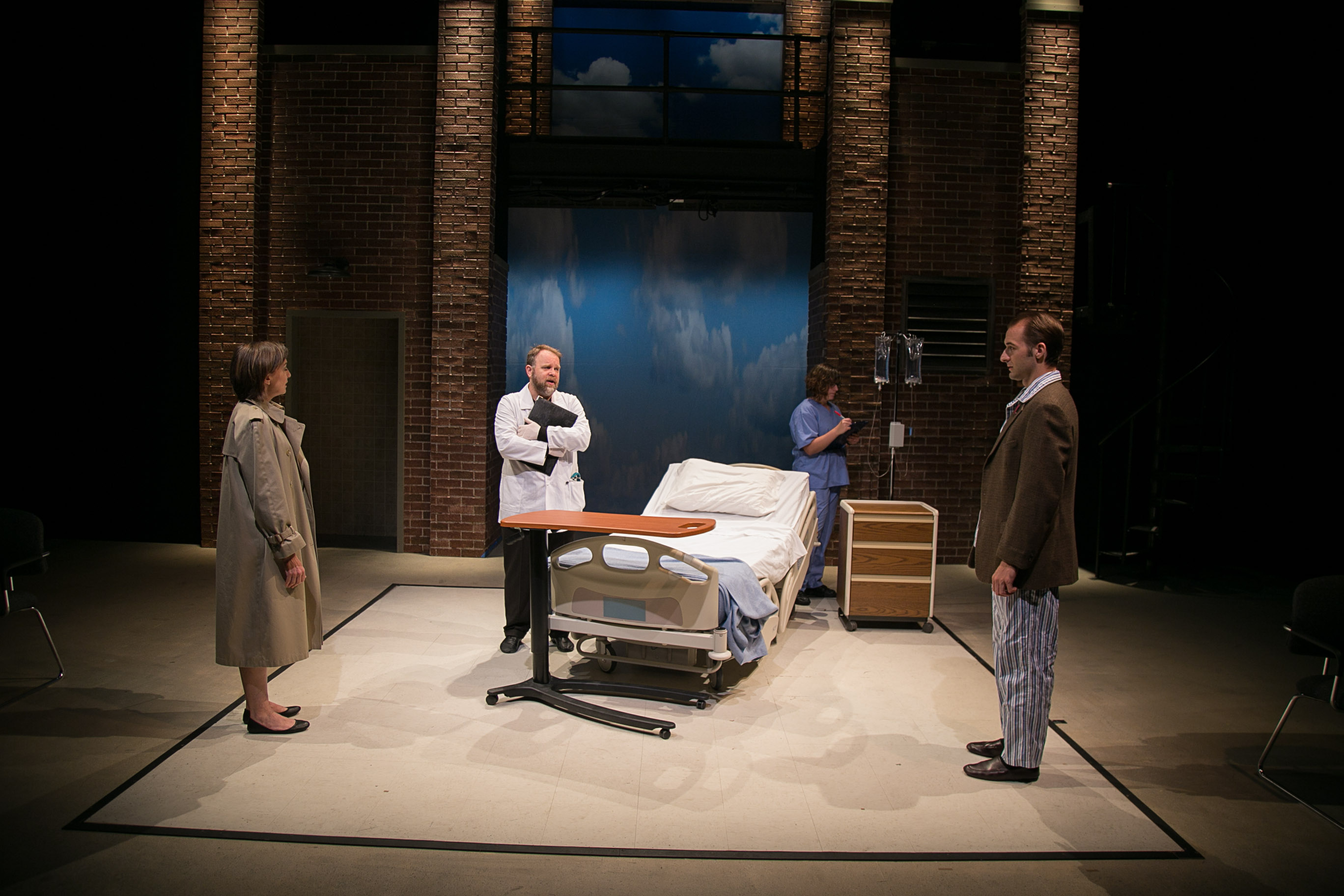 Photo by Katie Simmons-Barth